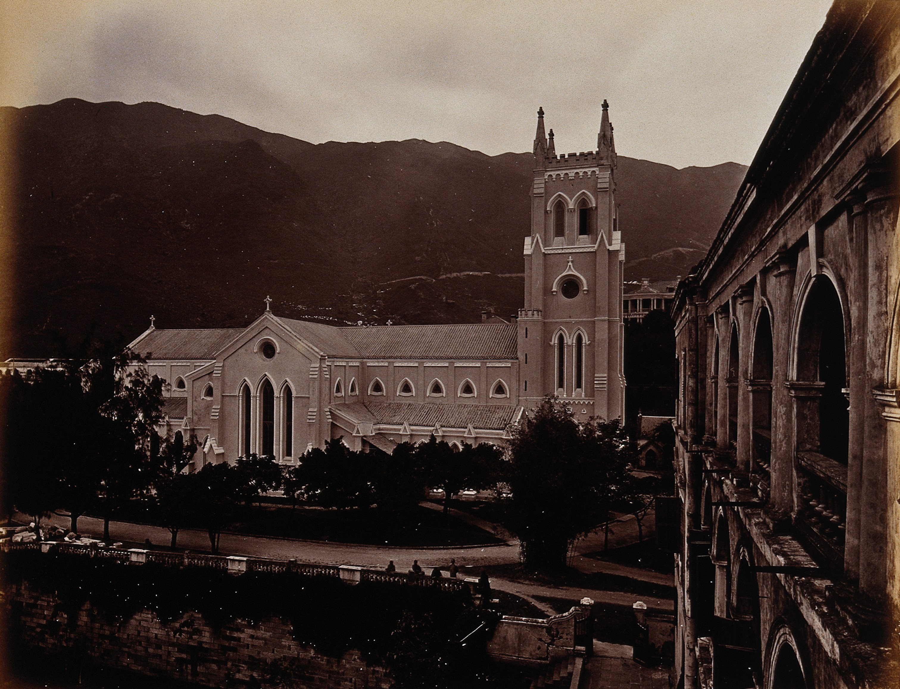 Hong Kong: St. John's Cathedral, North Front. Photograph. Iconographic Collections